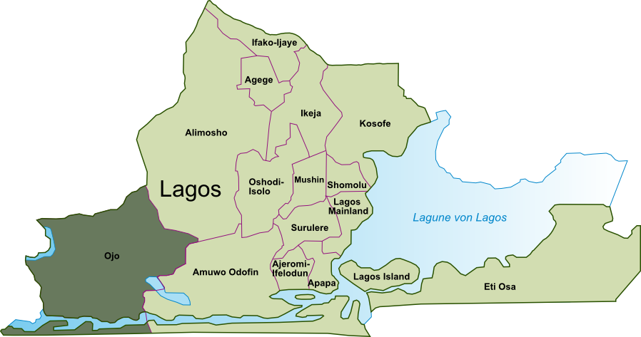 Map of the Local Government Areas of Lagos; Ojo highlighted